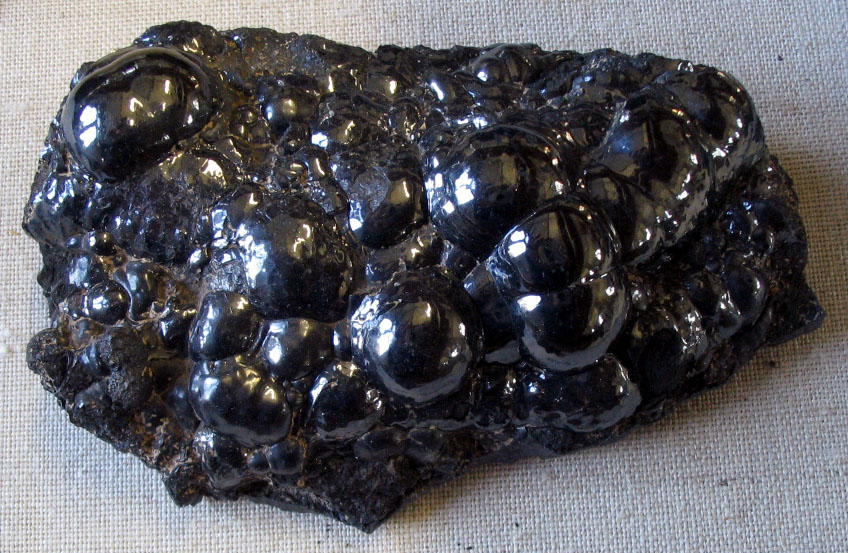 Shiny botryoidal mass of pyrolusite from Tres Cruzes, Brazil. Photo taken at the Natural History Museum, London.